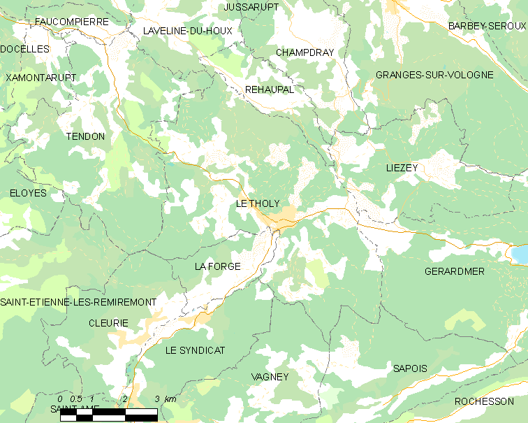 Map of French municipality Le Tholy